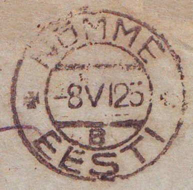 Cancellation Nõmme, Estonia, 8 June 1925.